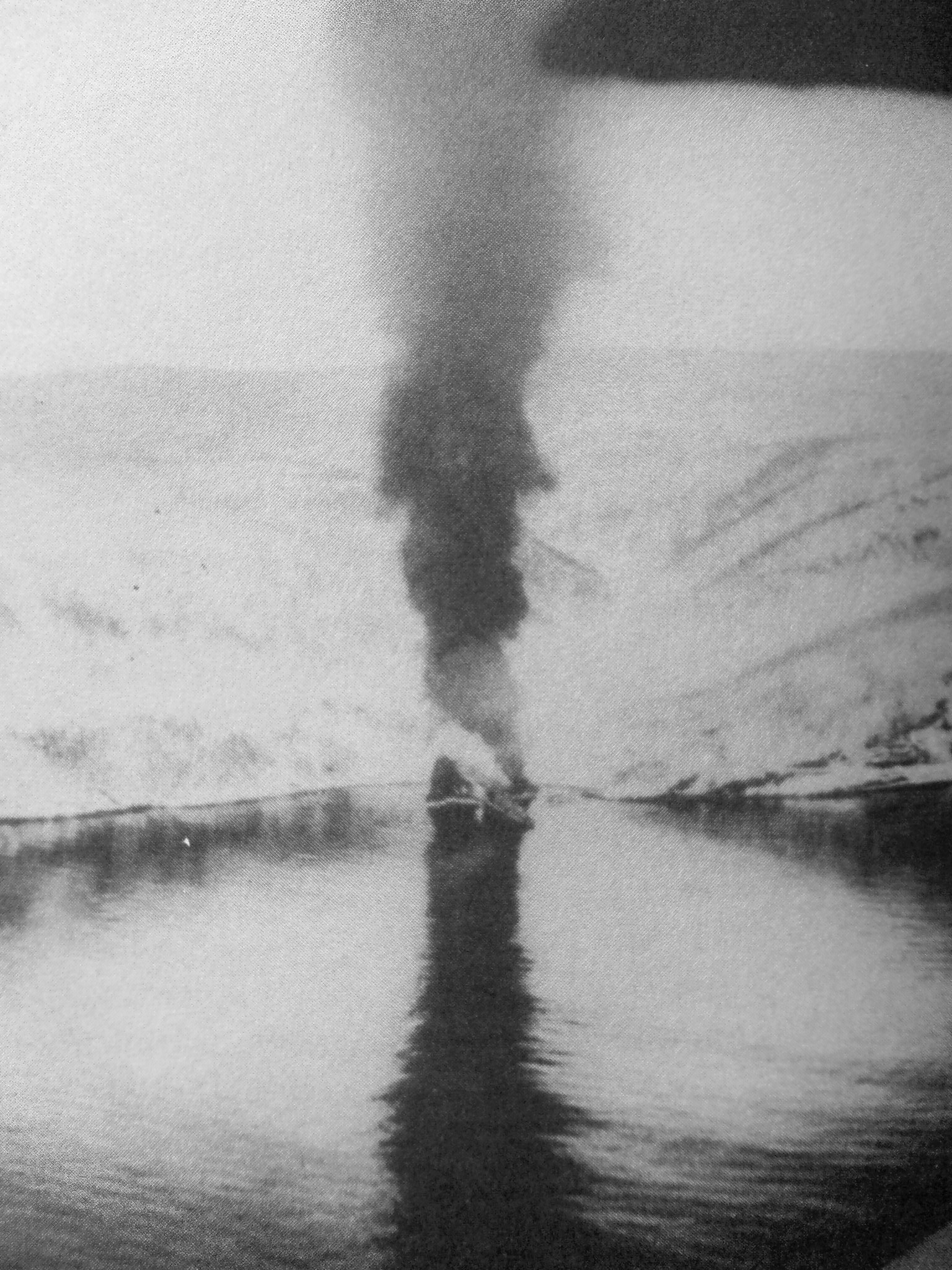 Kriegsmarine Zerstörer Z19 Hermann Künne on fire in Trollvika, 13. April 1940